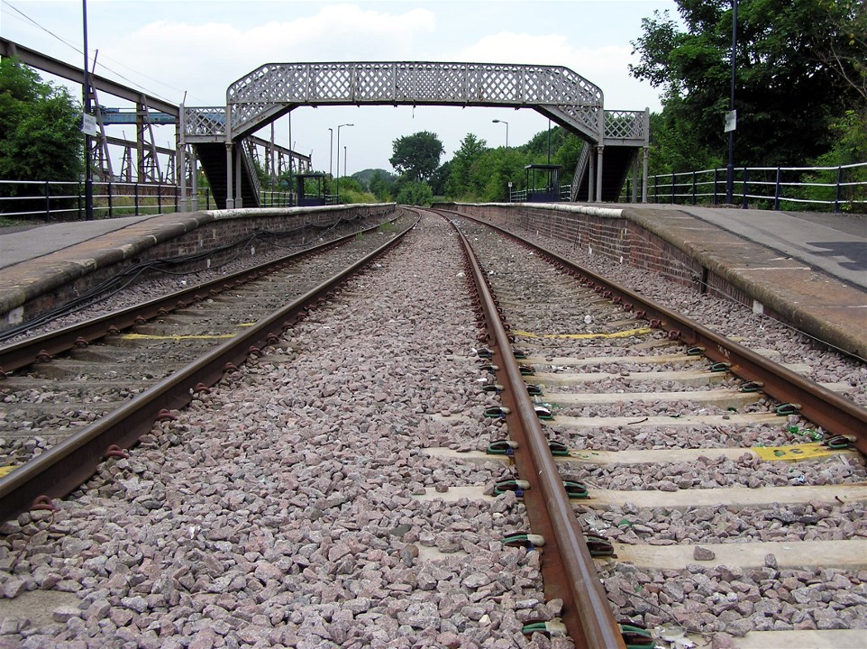 Gainsborough Central Railway Station - view looking north from the footpath crossing the tracks